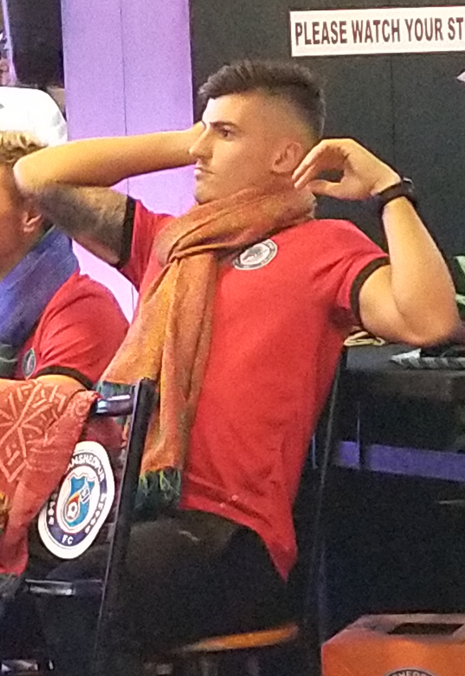 This file has been extracted from another file: Sergio Castel.jpg